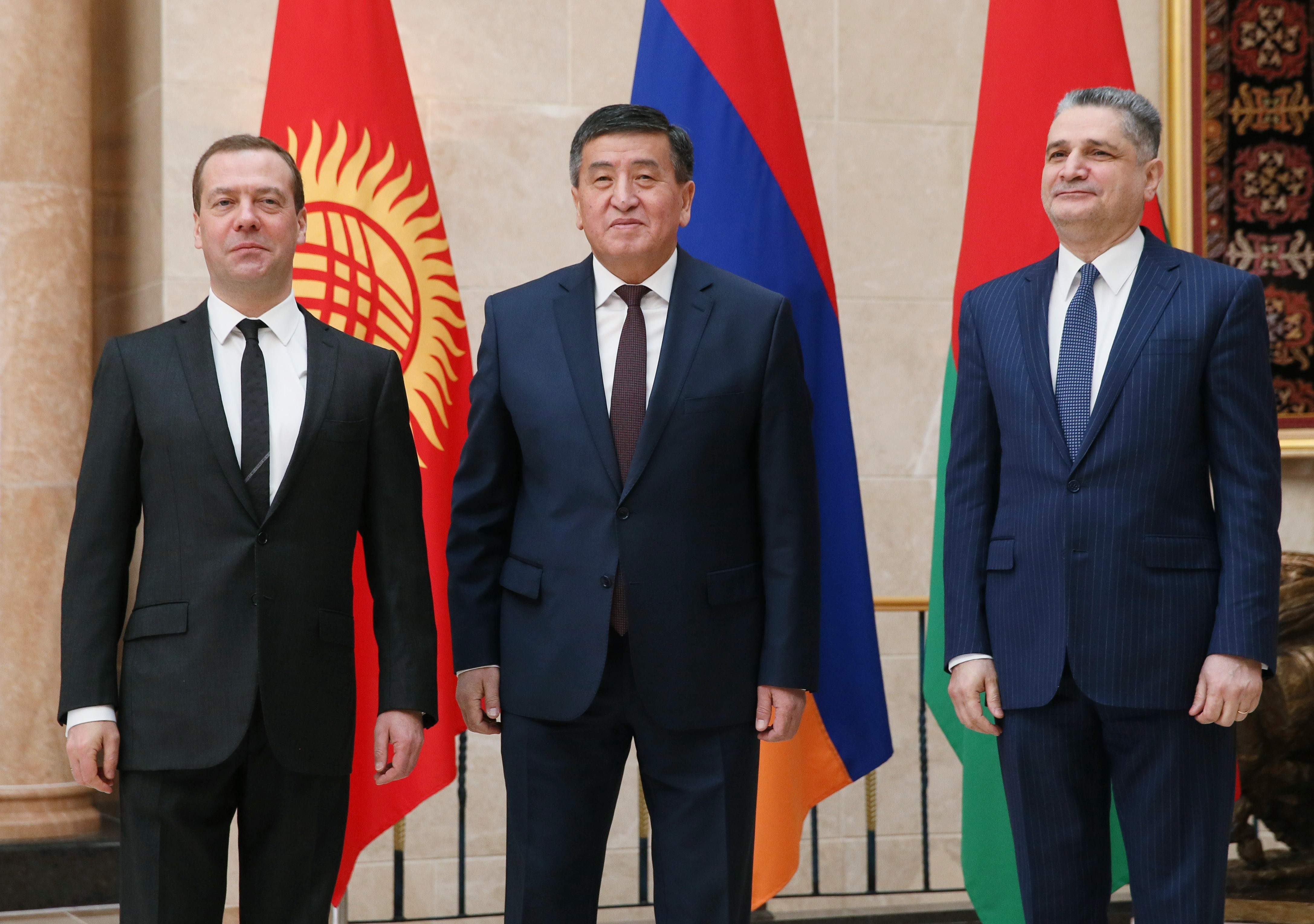 Russian Prime Minister Dmitry Medvedev, Kyrgyz Prime Minister Sooronbay Jeenbekov and Chairman of the Board of the Eurasian Economic Commission Tigran Sargsyan at the Eurasian Intergovernmental Council meeting in Bishkek, 7 March 2017.